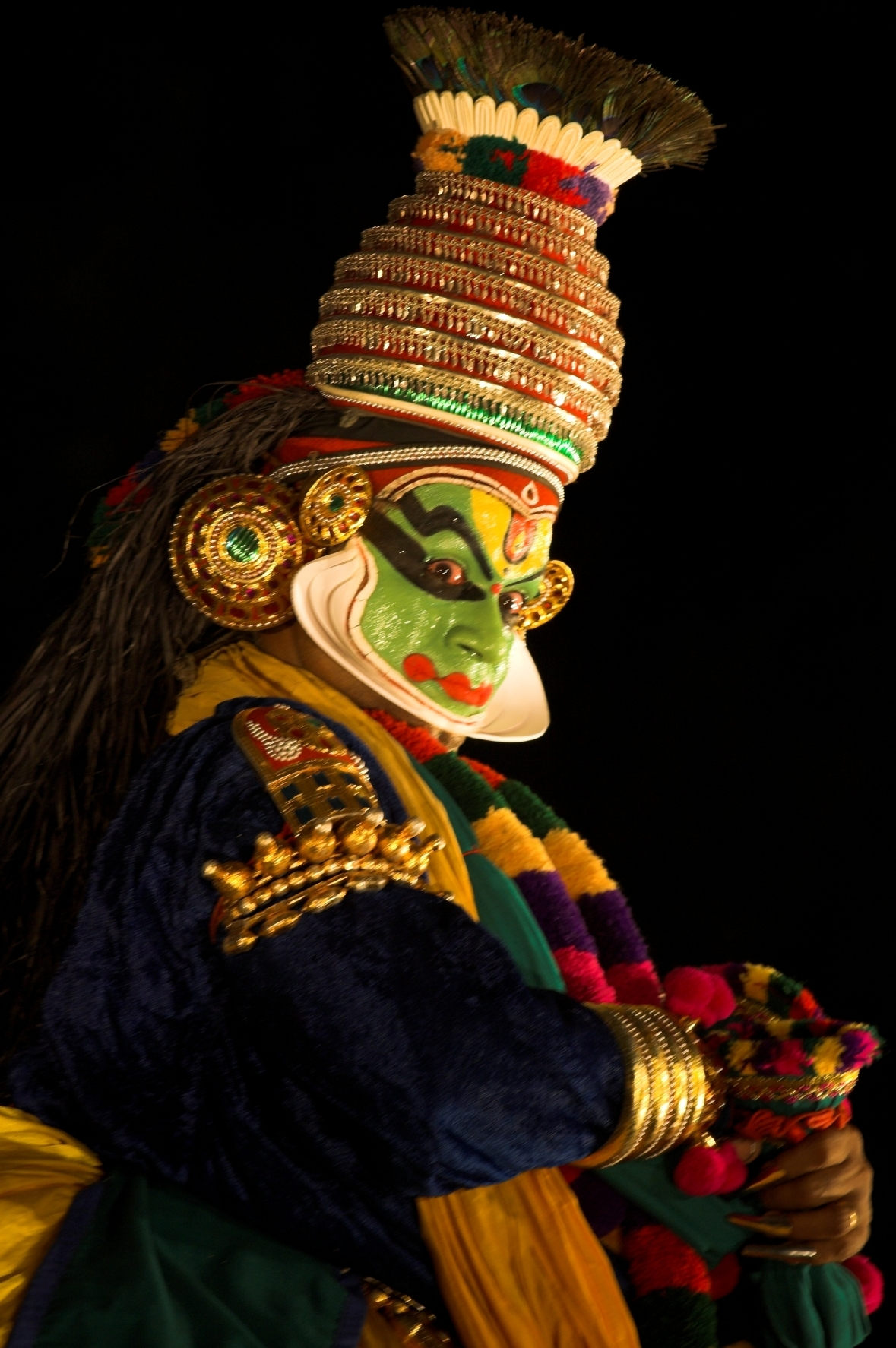 DuhSassaNa Vadham by Kathakali Sadanam. Kathakali is considered as one of the oldest theater forms in the world It is a dance drama with colorful makeup symbolizing the nature of the character. More details: Kathakali on Wiki: artindia :(